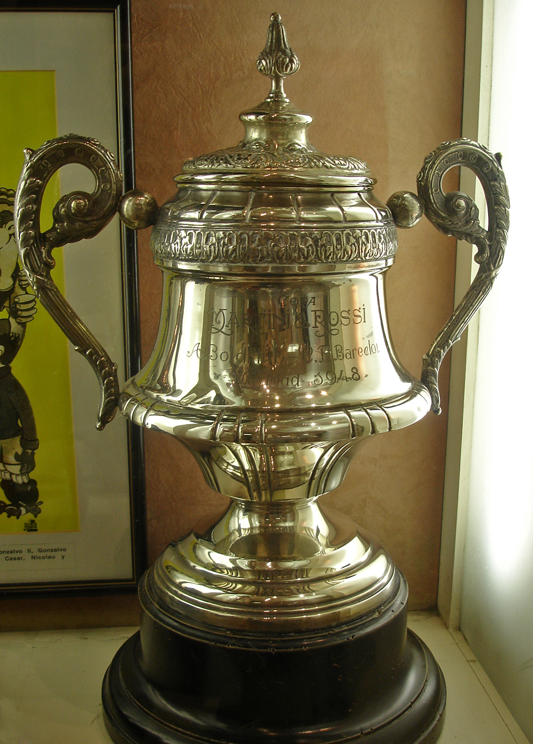 Martini&Rossi Cup (1948 - december - 25